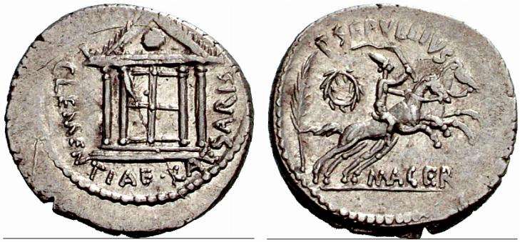 d=20 mm P. Sepullius Macer. Denarius 44, AR 3.65 g. CLEMENTIAE CAESARIS Tetrastyle temple. Rev. P·SEPVLLIVS – MACER Desultor galloping r., holding whip in r. hand and reins of second horse with l.; in field l., wreath and palm branch. B. Sepullia 7 and Iulia 52. Sydenham 1076. Sear Imperators 110. Crawford 480/21. Rare. Die-break on reverse, otherwise good extremely fine